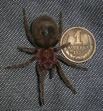 Spider Grammostola Pulchra age L4 before moulting (see image GrammostolaPulchraL5AfterMoulting.JPG)